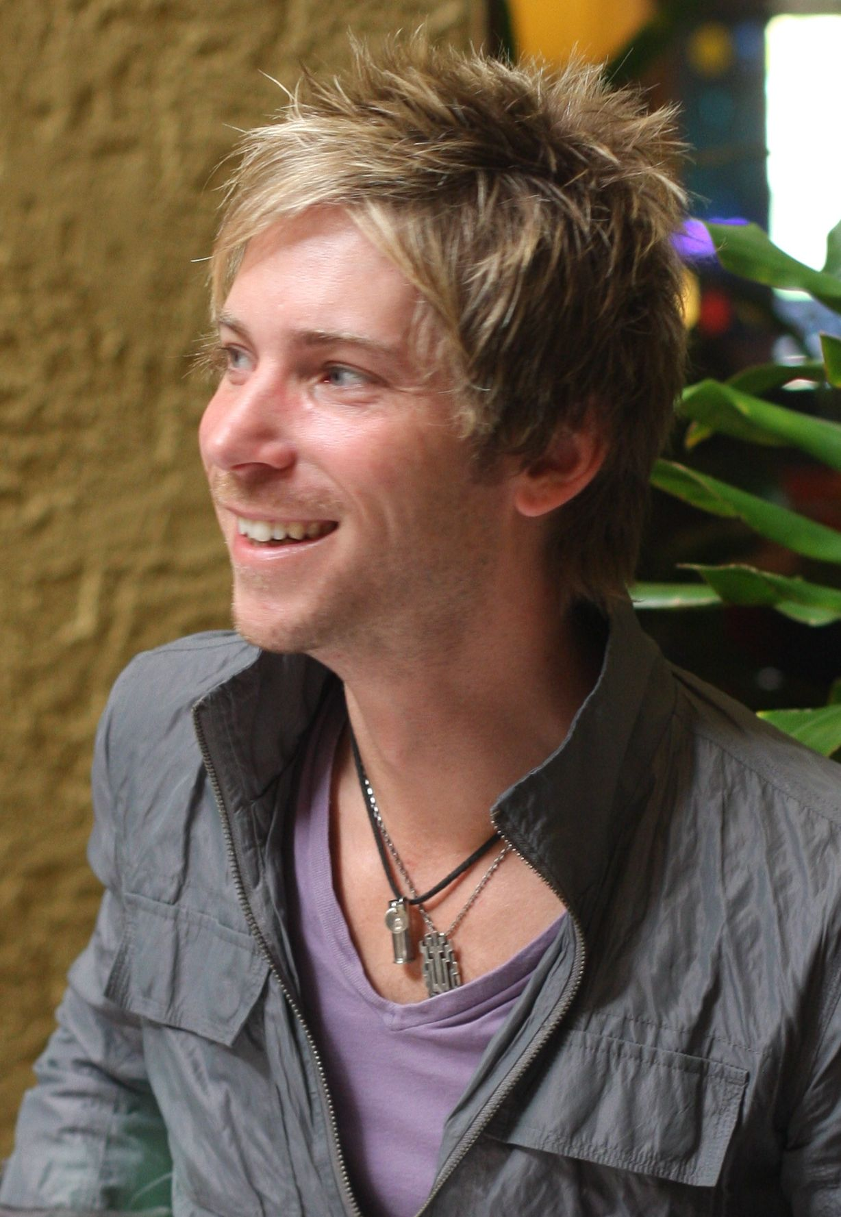 Digital photos from the anime convention Taiyoucon 2011 in Mesa, Arizona. Actor Troy Baker... From the Taiyoucon website: A native of Dallas, Texas, Troy, once the lead singer for “Tripp Fontaine” (FMPM/Universal) first began working as an actor in TV and Radio commercials. He quickly became a mainstay voice actor of the Anime community with such roles as “Frank Archer” in Full Metal Alchemist, "Greed" in Full Metal Alchemist Brotherhood, “Abel Nightroad” in Trinity Blood, “Gennosuke” in Basilisk, “Schneizel” in Code Geass and “Action Bastard” in Shin Chan. Troy can also be heard in lead roles for blockbuster video game titles like Darksiders (Abbaddon), Final Fantasy 13 (Snow Villiers) Modern Warfare 2 (Allen), Call of Duty: Black Ops (Brooks), Red Faction: Guerrilla (Alec Mason), Persona 4 (Kanji) Tales of Vesperia (Yuri), Resistance 2 (Major Blake), Trauma Center: New Blood (Markus Vaughn), and Age of Conan: Hyborian Adventures (Conan). Troy has excelled in the on camera industry, as well. He has starred alongside Val Kilmer (Tombstone), Karl Urban (Star Trek), Steve Zahn (That Thingy You Do!), Elizabeth Banks (W), Glenn Morshower (24), and Lou Diamond Phillips (La Bamba). He was also the host and co-producer for the hit reality TV show “Road Rage”, which spotlighted pop culture conventions around the country. Now residing in Los Angeles, Troy continues to write and record music while also working on Naruto (Yamato), Soul Eater (Excalibur), and several other projects to be announced in 2011.